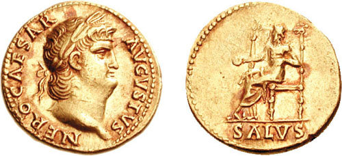 NERO. 54-68 AD. AV Aureus (7.29 g, 4h). Rome mint. Struck circa 65-66 AD. NERO CAESAR AVGVSTVS, laureate head right SALVS in exergue, Salus seated left on ornate throne, holding patera in extended right hand; left hand at side. RIC I 59; WCN 28; Calicó 443a; BMCRE 87; BN 226; Cohen 313.